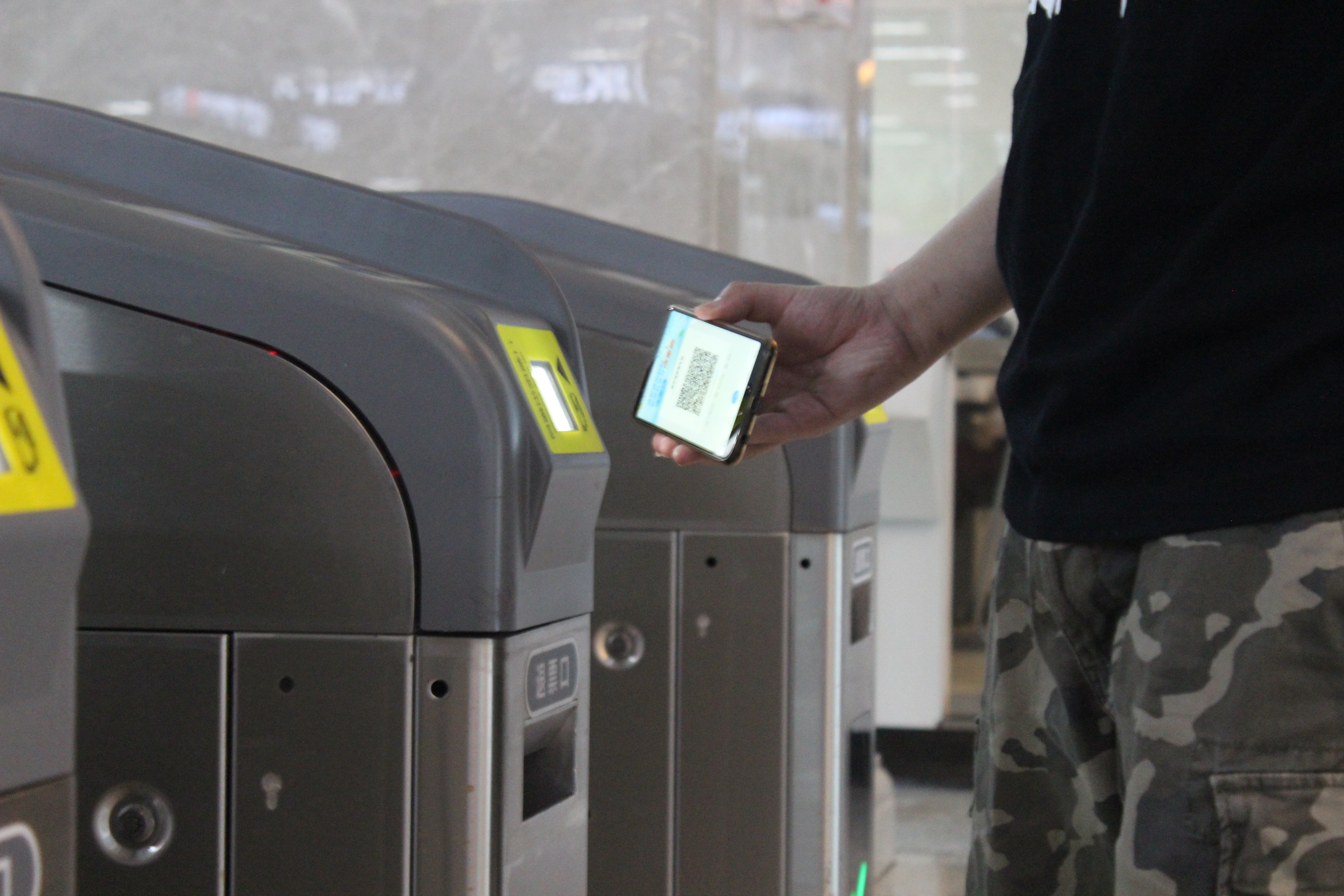 The Wuhan Metro has introduced QR code payments across the whole network. Before using it, passengers need to downlod and install an app called "Metro新时代 (Metro New Era)"